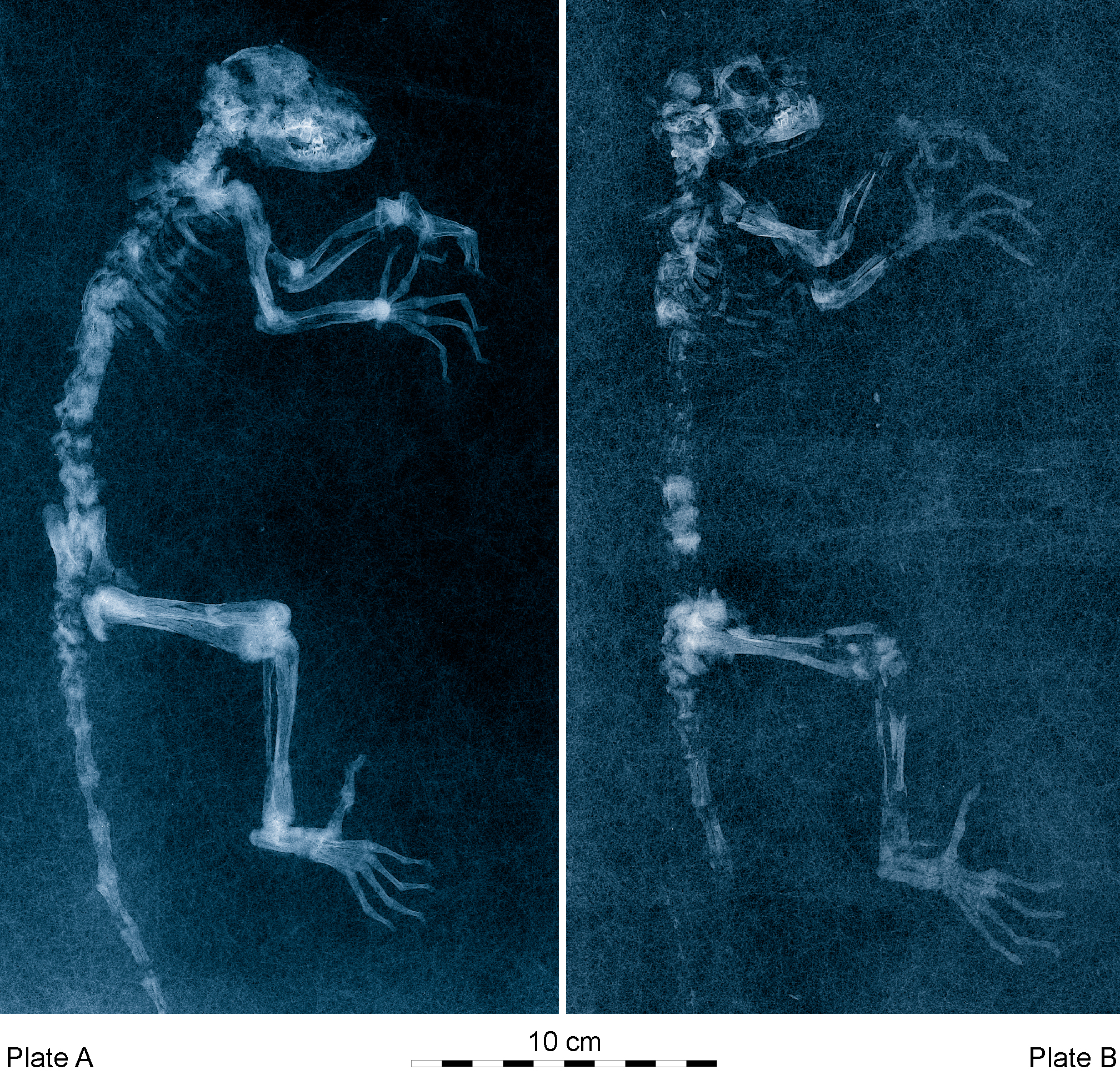 Radiographs of the type specimen of Darwinius masillae, new genus and species, from Messel in Germany. Relative positions and museum numbers as in Figure 1. Radiographs show that all of plate A is genuine, while cranium, thorax, upper arms (part 1), and lumbus, pelvis, base of tail, and upper legs (part 2) of plate B are genuine.